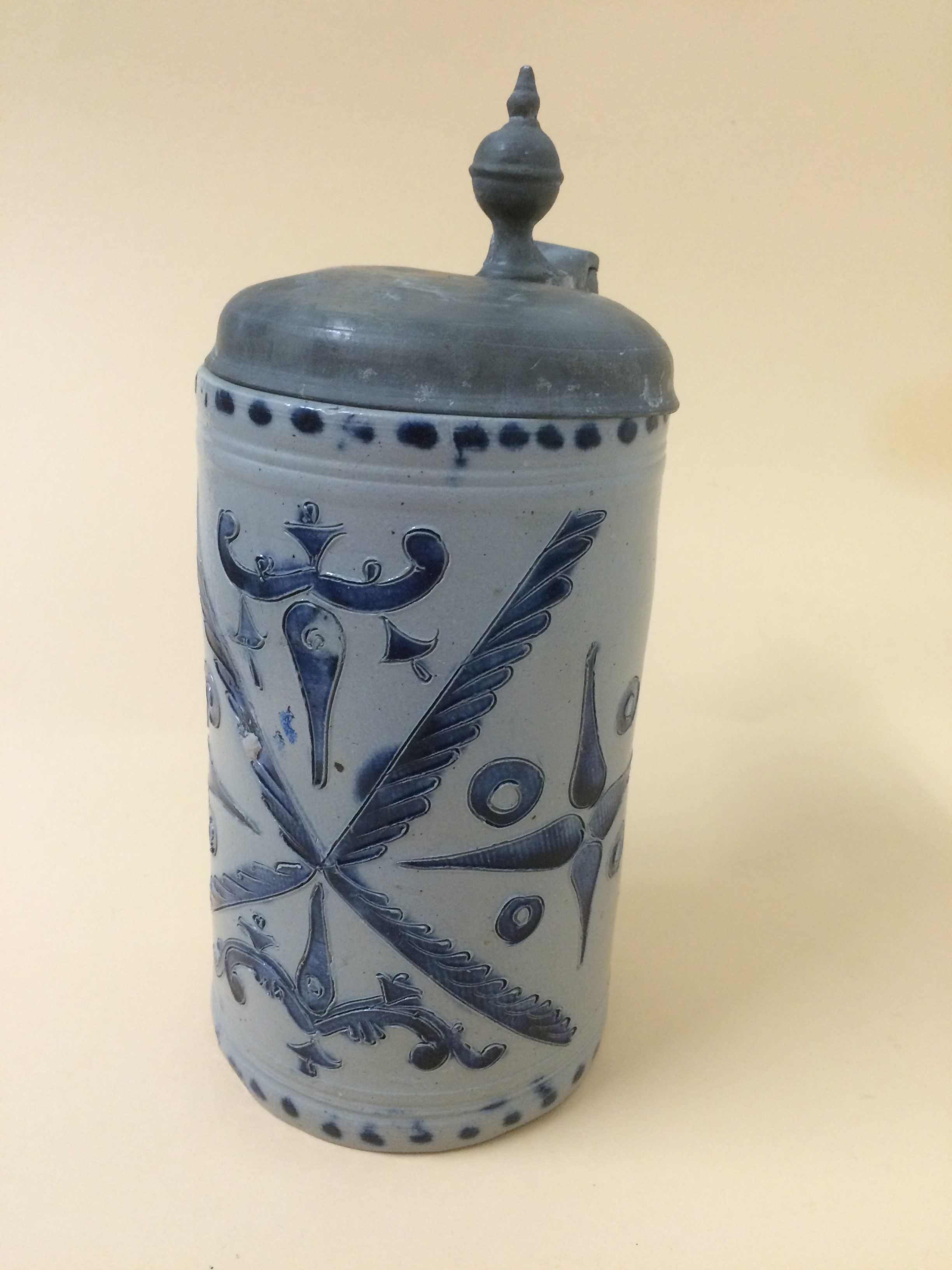 Beer stein, German Stoneware, Westerwald Region, last third 18. century